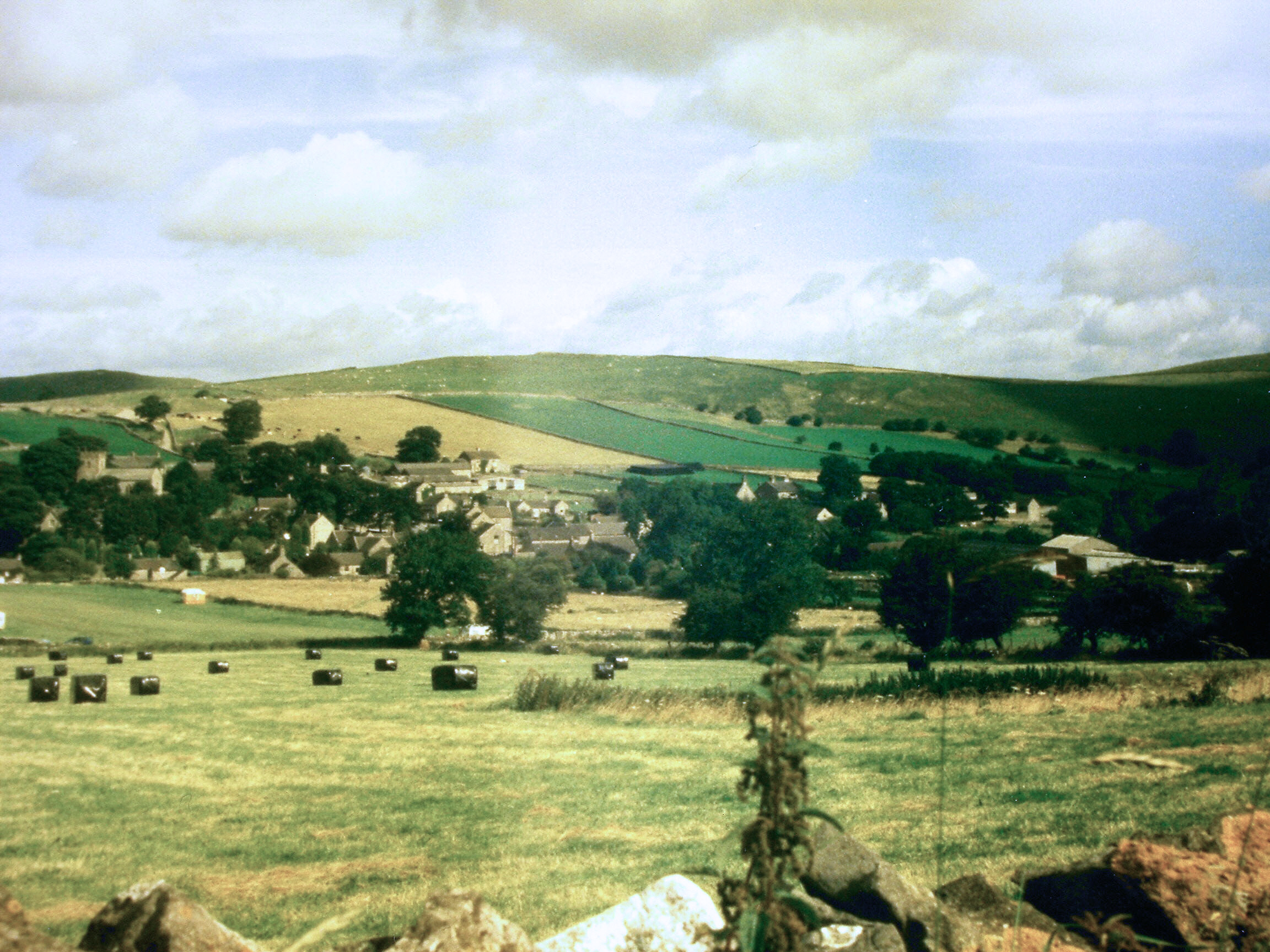 View of Wetton, Staffordshire, from south, Wetton Low, direction